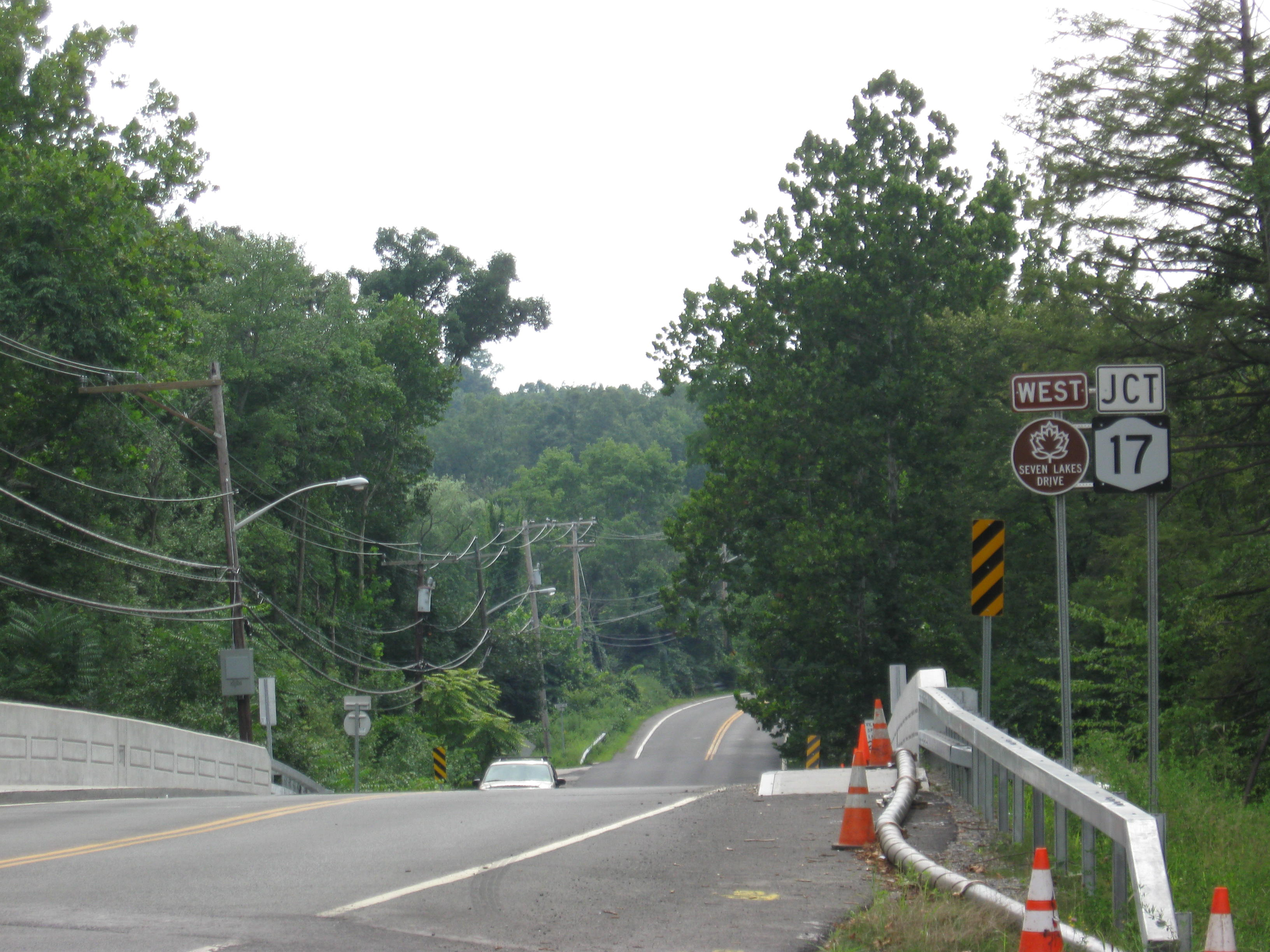 Seven Lakes Drive Western Terminus Shield in Sloatsburg, NY.